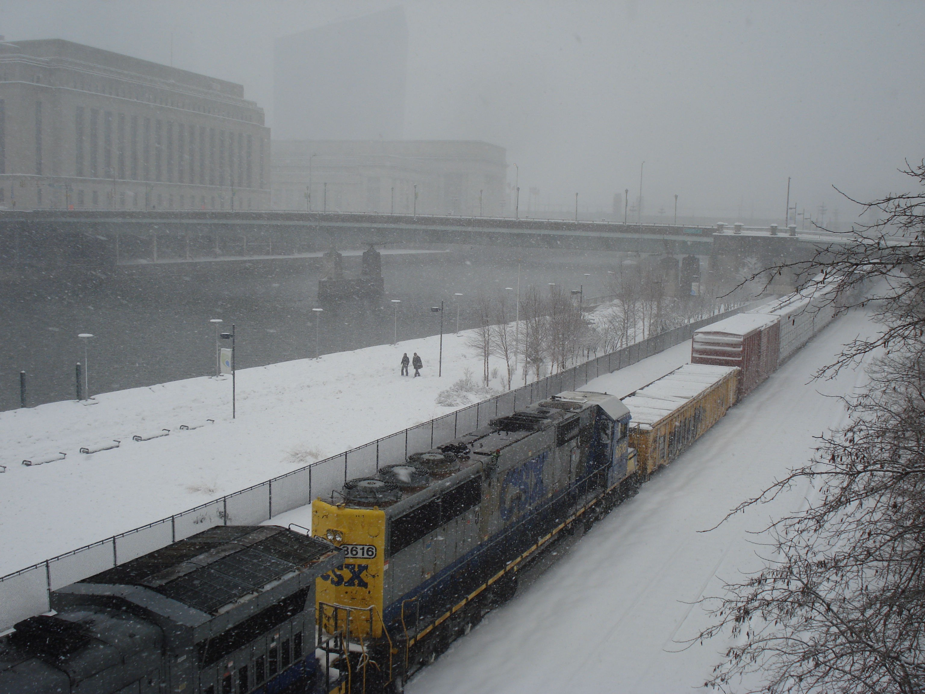 Blizzard conditions on the Schuylkill River in Philadelphia during the Second North American blizzard of 2010. Chestnut Street Bridge, with former post office and 30th Street Station.